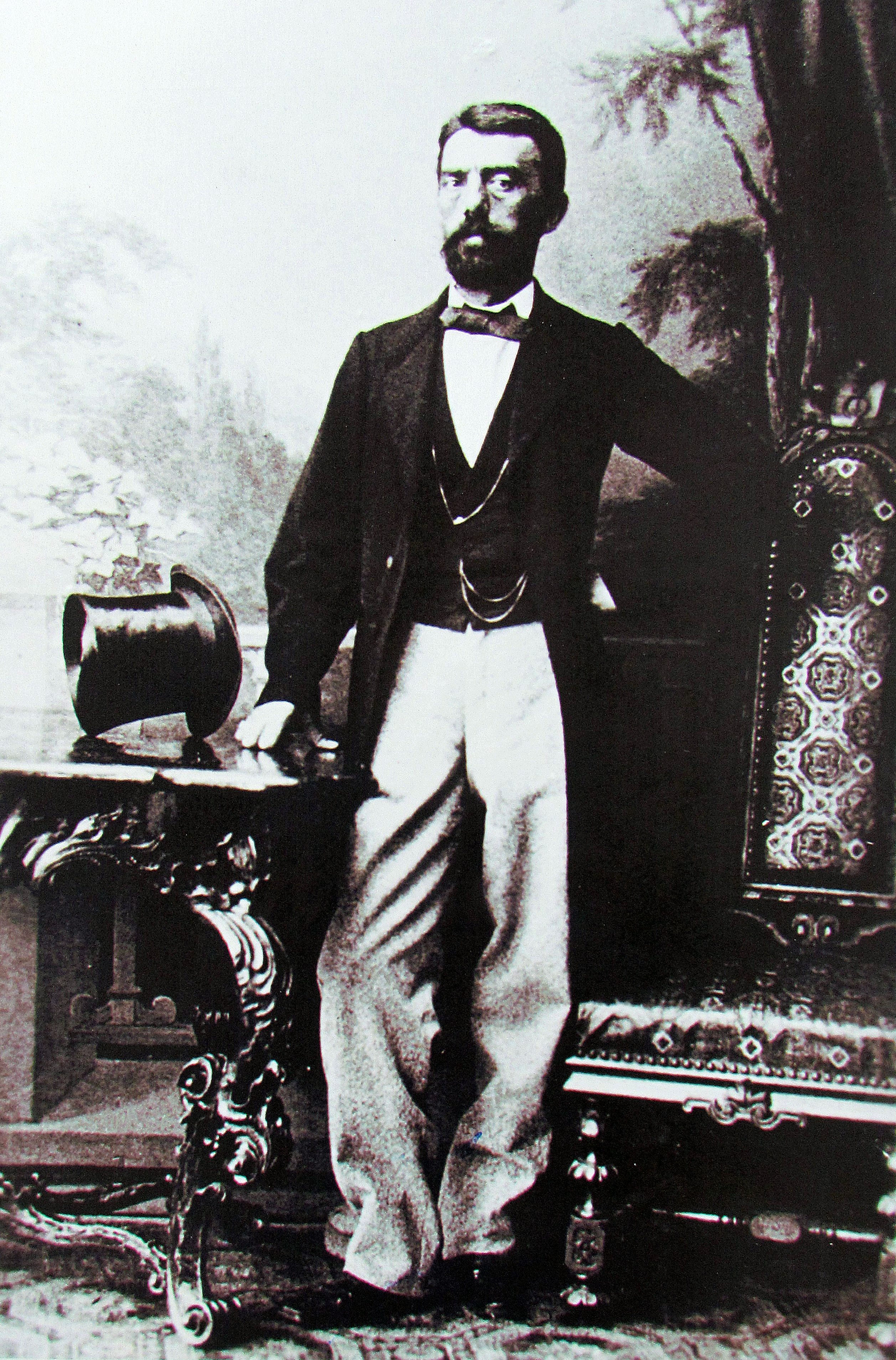 Kosta Cukić, economist and minister of finance and education in the government of Prince Mihailo Obrenović